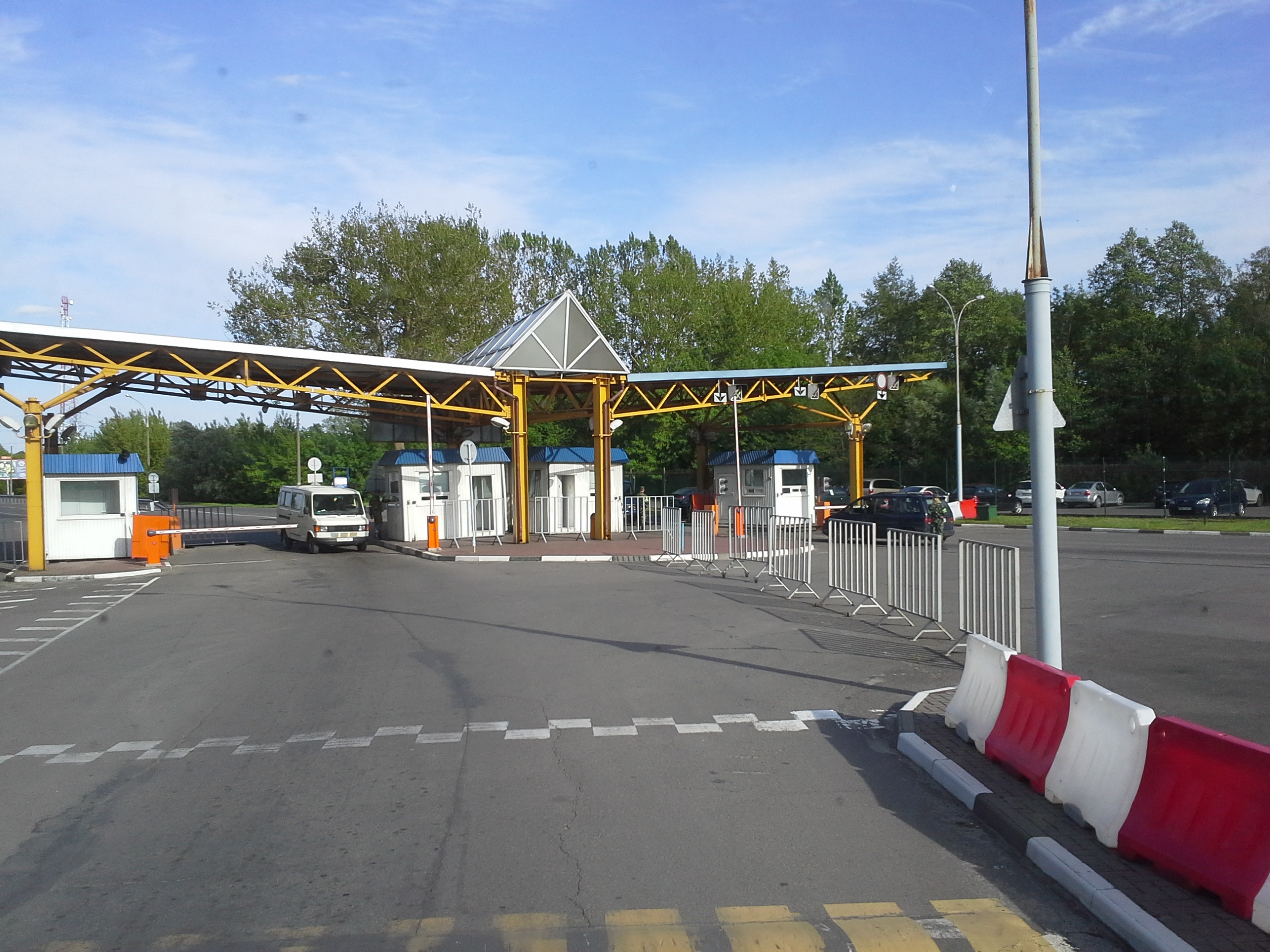 Brest border checkpoint